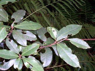 Quintinia sieberi at Pierces Pass, Grose Valley, Blue Mountains National Park, Australia